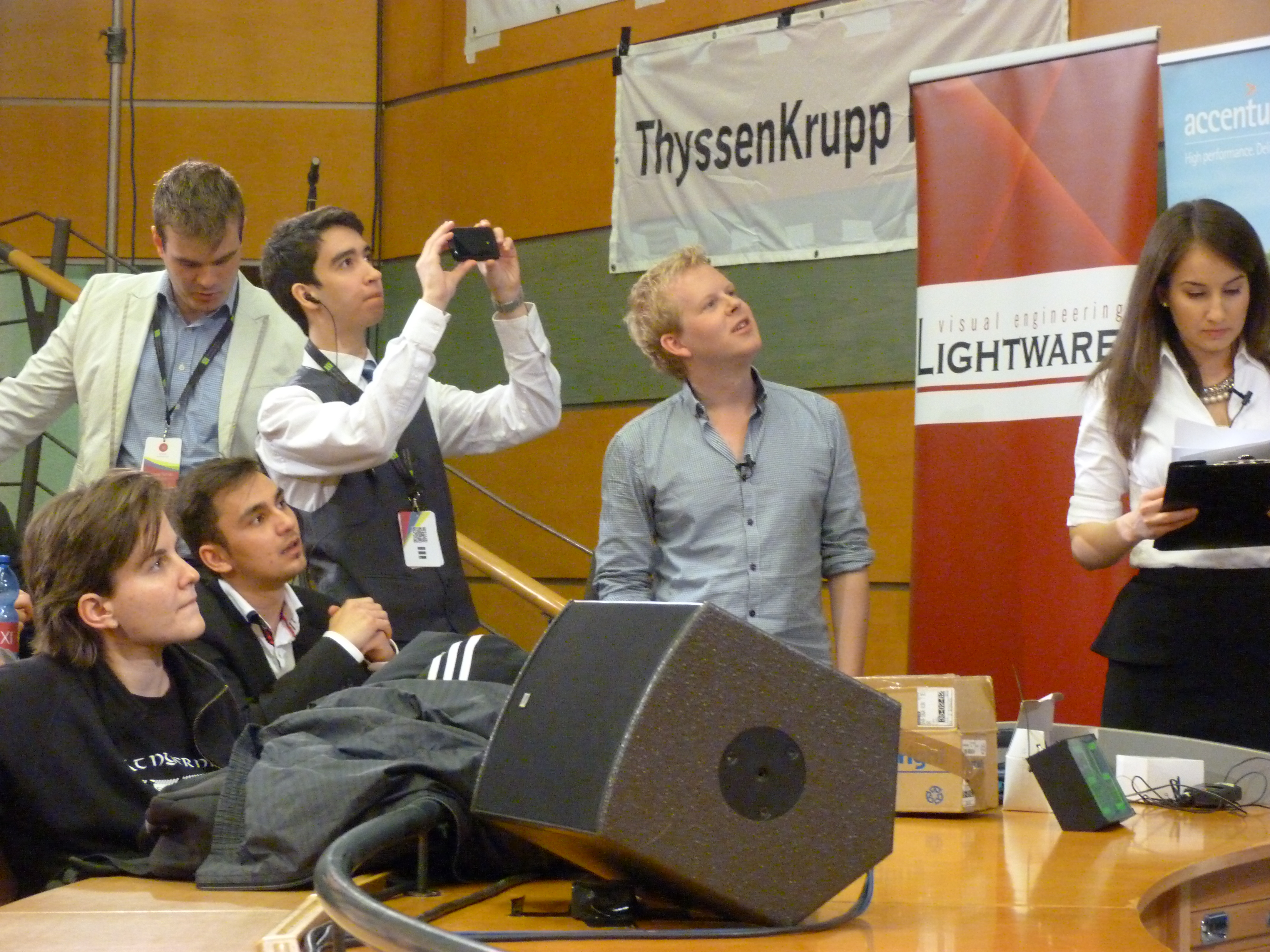 XI. Simonyi Conference – 2014.04.15 Live on the 15th of April, 2014. Budapest, Budapesti Műszaki Egyetem. The Simonyi Conference is the greatest student organized professional event of both the Vocational College and the Faculty of Electric Engineering and Informatics. Simonyi Károly (father of Charles SimonyI) worked at the Budapesti Műszaki Egyetem, his lectures and engagement for engineering science was outstanding. Detailes in Hungarian. ©© Derzsi Elekes Andor, Budapest, 2014, You are authorised to use these photos and vids under Creative Commons – even for commercial, for profit purposes. Photos must be attributed to Derzsi Elekes Andor. All of the photos and vids in the Metapolisz DVD line are under Creative Commons and can be used even for commercial – for profit – purposes. Recommended Citation Derzsi Elekes Andor: Metapolisz DVD line Sources